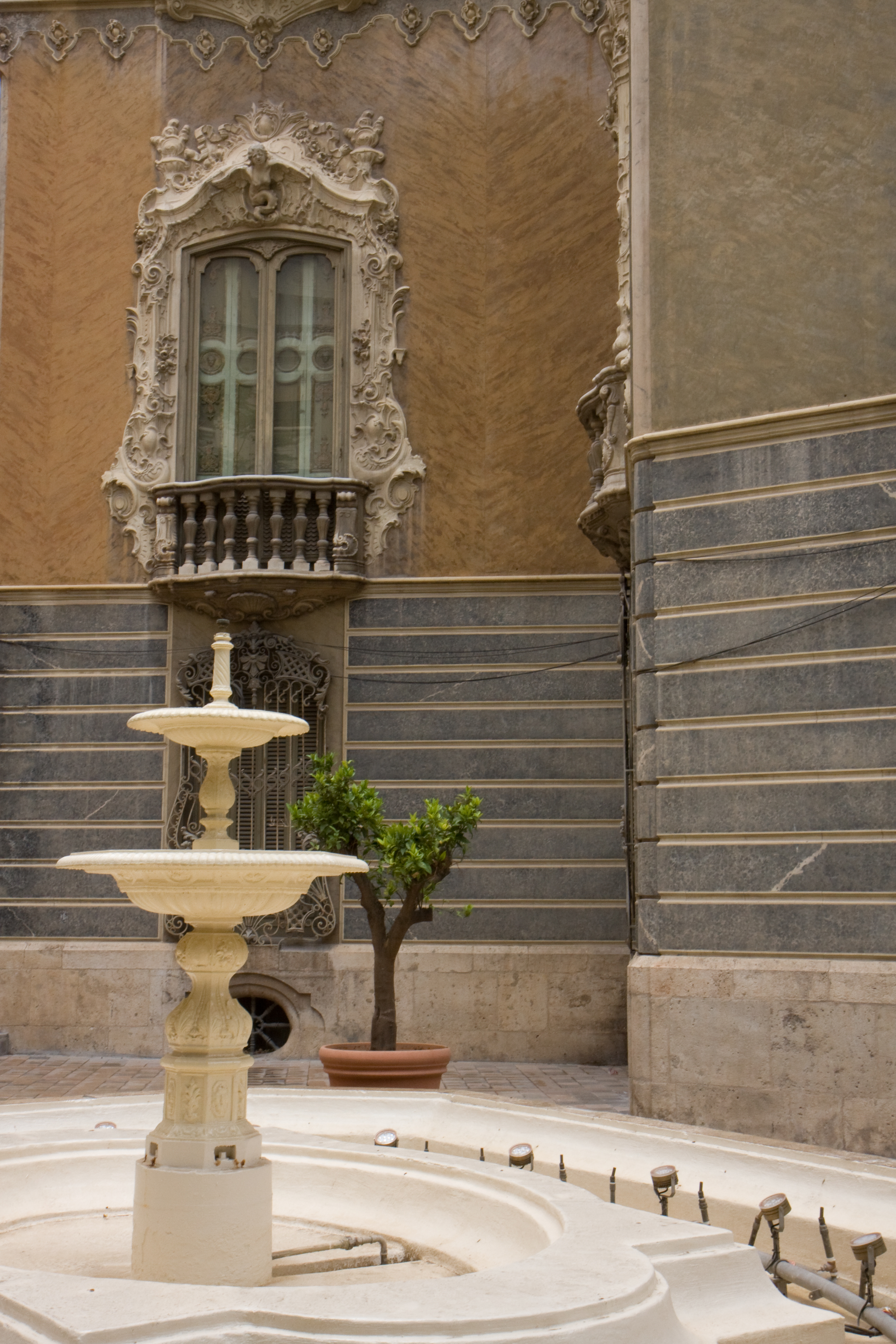 The Ceramics Museum is the Palacio de Marques de Dos Aguas. One of the most luxurious palaces I've seen (rococco, neo-classical, oriental).